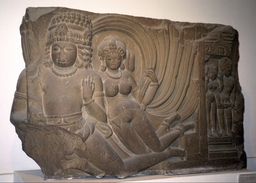 ~ Vidyadharas ~ ° Sondni, near Mandsaur, MP ° now at National Museum, New Delhi